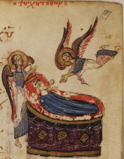 Separation of the soul from the body, fol. 137r, Theodore Psalter, 1066, Lond. Add. 19352